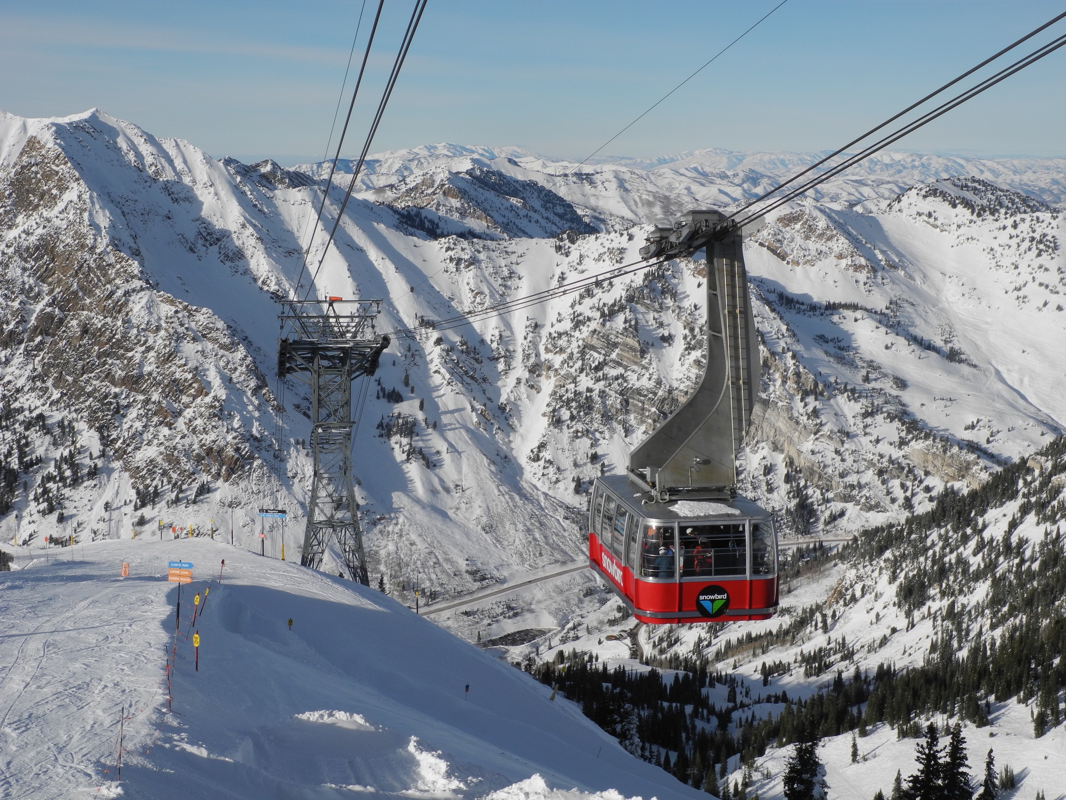 One of two cars on the Aerial Tram at Snowbird Ski and Summer Resort approaching the top station at Hidden Peak.